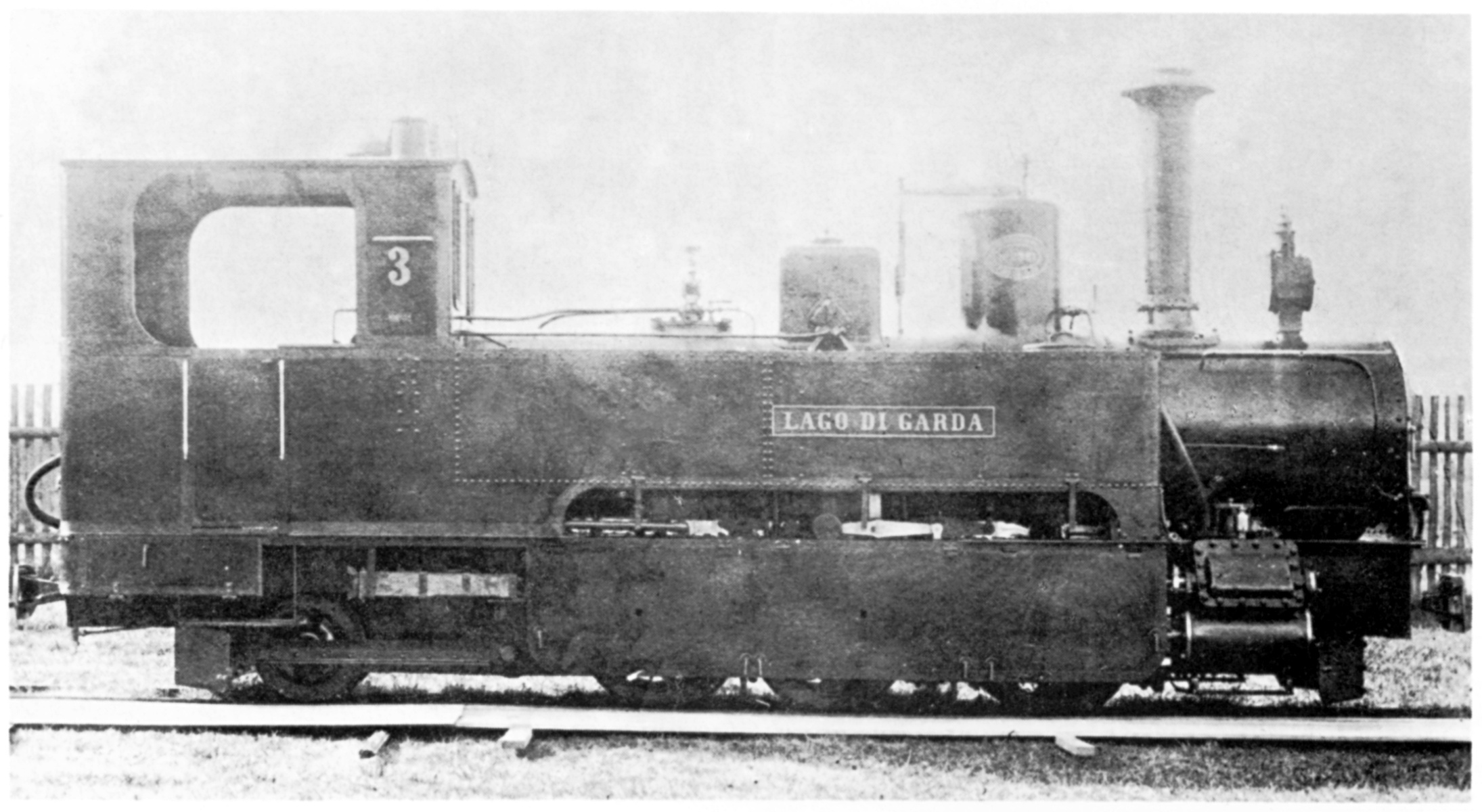 Locomotive No. 3 "Lago di Garda" of the narrow gauge railway Mori - Arco - Riva, work's photograph of Krauss in Linz from 1891.